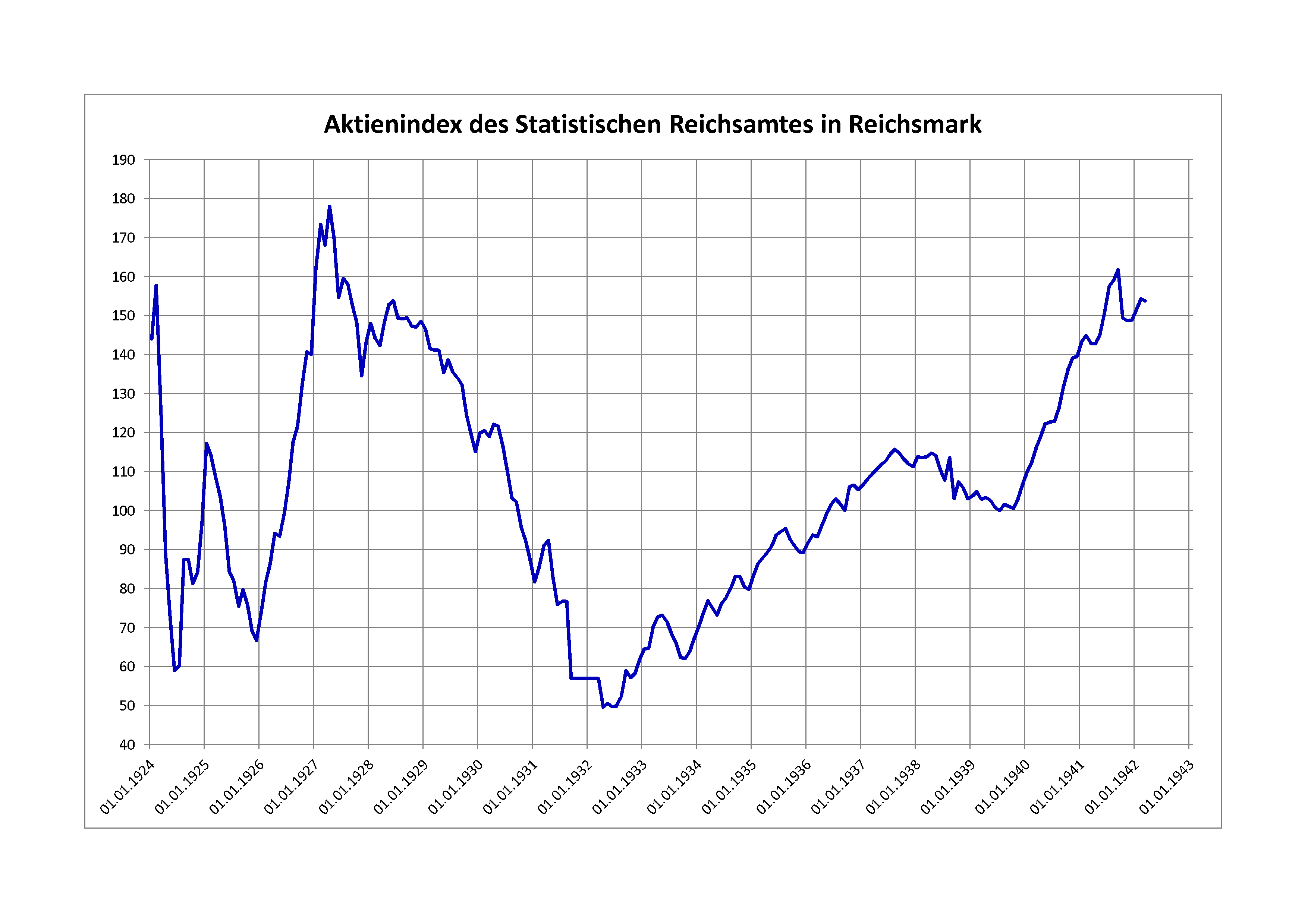 Stock market index of the Statistisches Reichsamt (Statistical Office) in Reichsmark from January 1924 to March 1942 (monthly average prices)